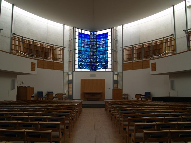 The Falkland Islands Memorial Chapel at Pangbourne College has been built to commemorate the lives and sacrifice of all those who died in this South Atlantic conflict in 1982 - and to stand as a permanent and ‘living’ memorial to remember them, and also the courage of the thousands of Servicemen and women who served with them to protect the sovereignty of the Falkland Islands.